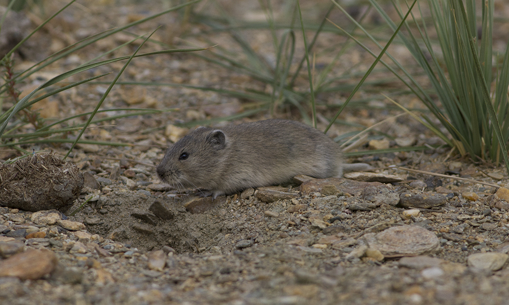 This is a photograph of Stoliczka's mountain vole from Tso Pangong, Ladakh, Jammu and Kashmir, India. Photographed on 13.08.2013